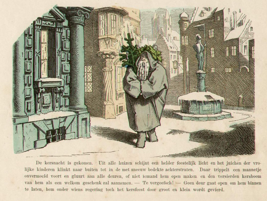 Von Schwind's first 1847 drawing was entitled “Herr Winter"